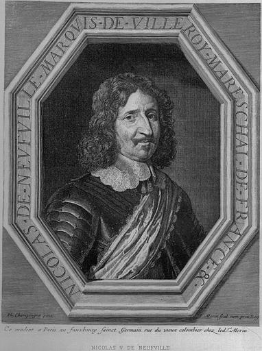 Print of Nicolas de Neufville, Marquis of Villeroy, 1st Duke of Villeroy (Musée de la Révolution française).